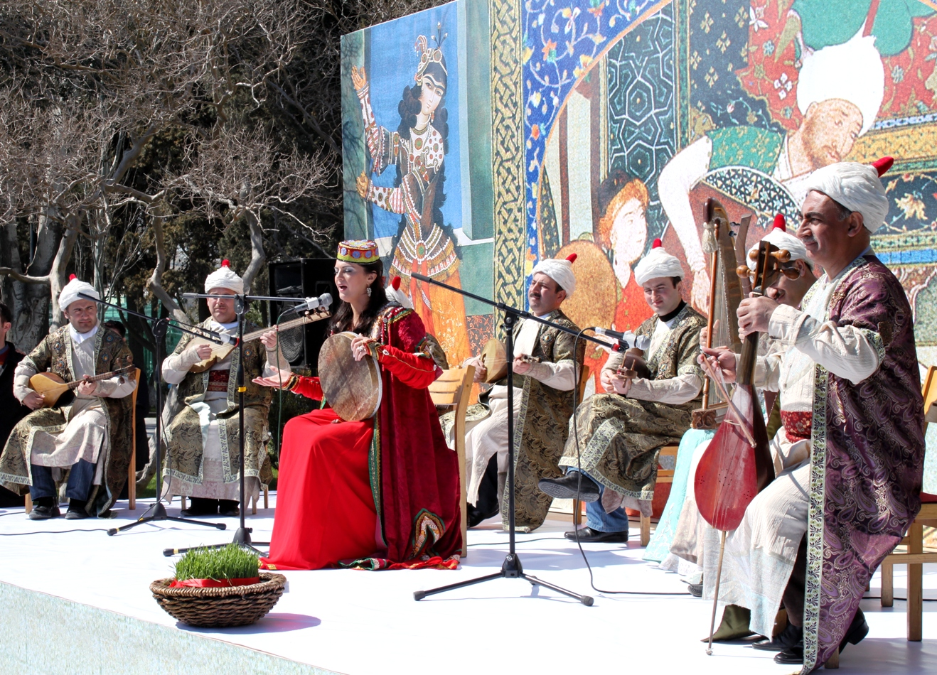 Traditional azeri music